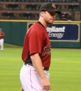 I took this picture on Opening Day, April 2, 2007, at Minute Maid Park during warm-ups. 17:01, 3 April 2007 . . Blwarren713 . . 276×313 (24 KB)